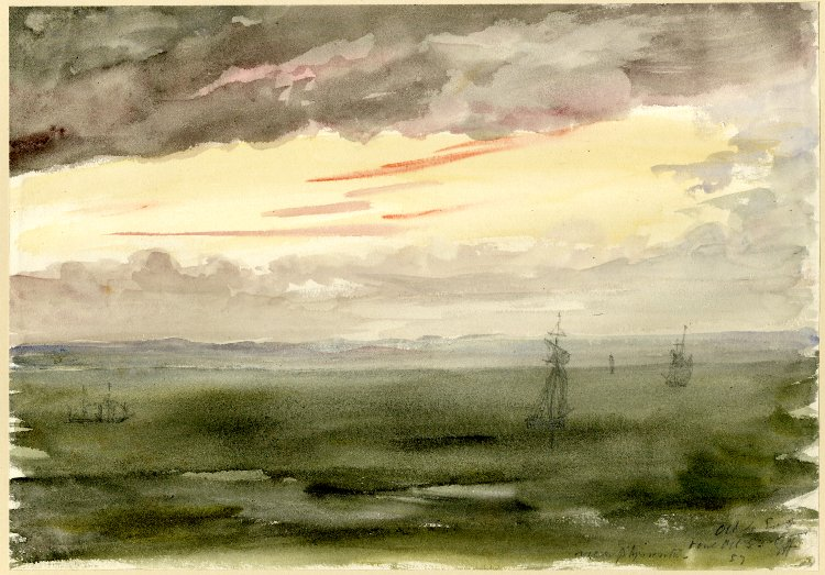 "Near Plymouth"; view looking across the water to distant hills, ships and boats on the water